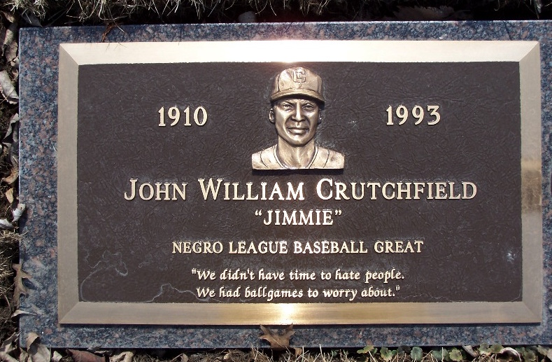 John "Jimmie" William Crutchfield Grave Marker